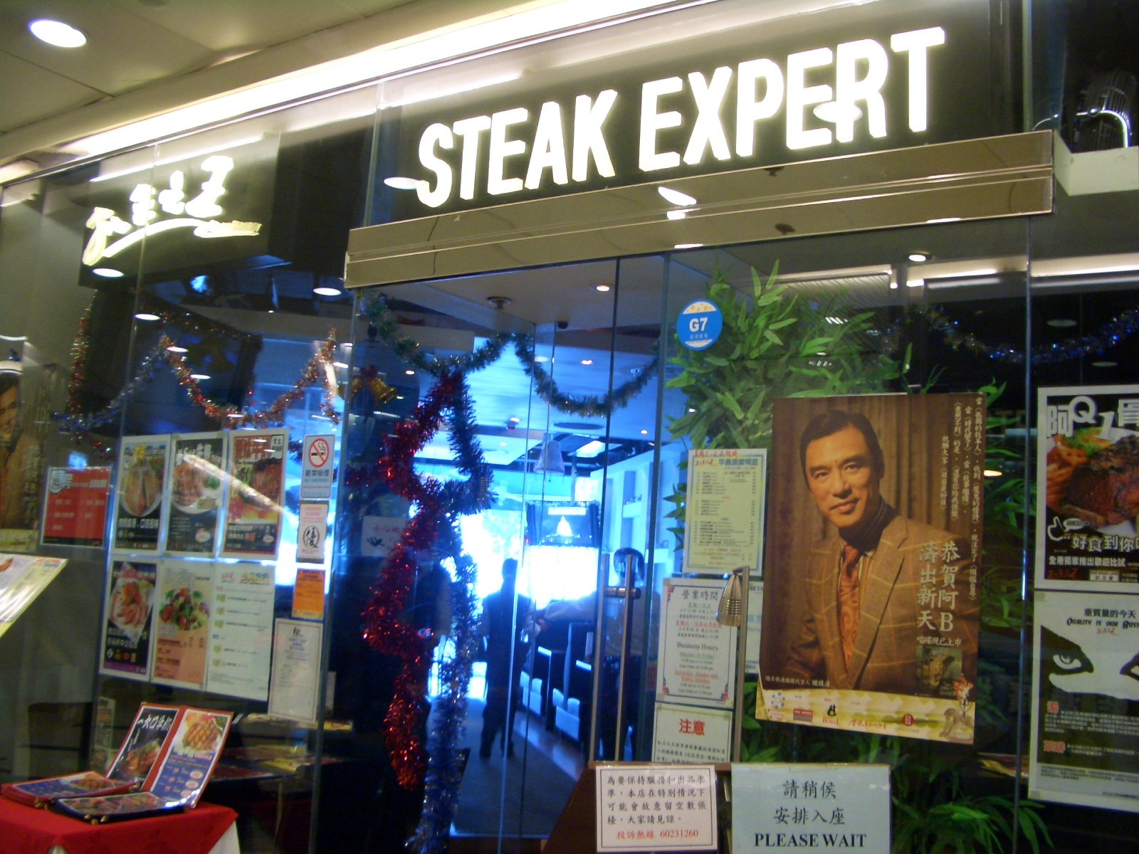 A Steak Expert in Siu Sai Wan, Hong Kong